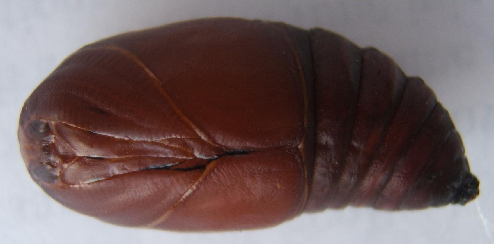 Actias luna male pupa taken by Shawn Hanrahan and reared on American Sweetgum.